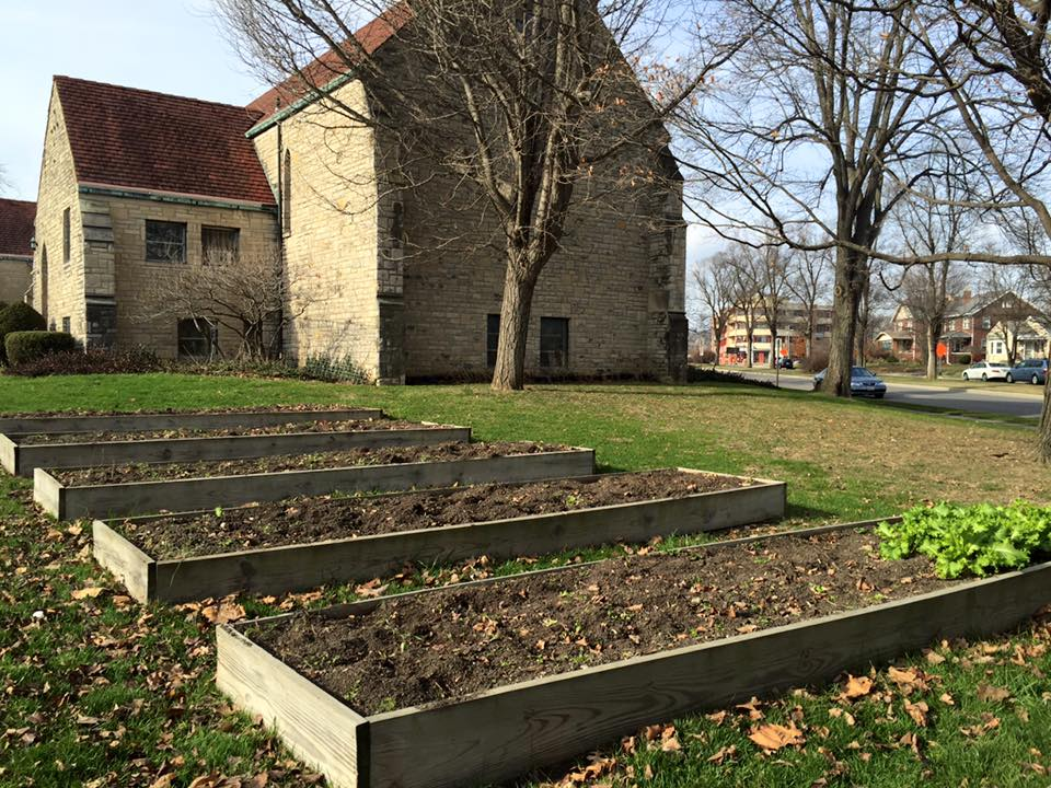 Community gardens in Fifth by Northwest